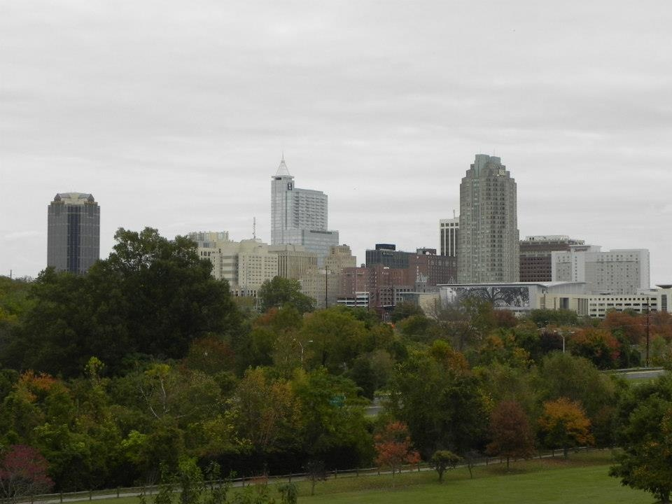 Downtown Raleigh skyline seen from Dorothea Dix